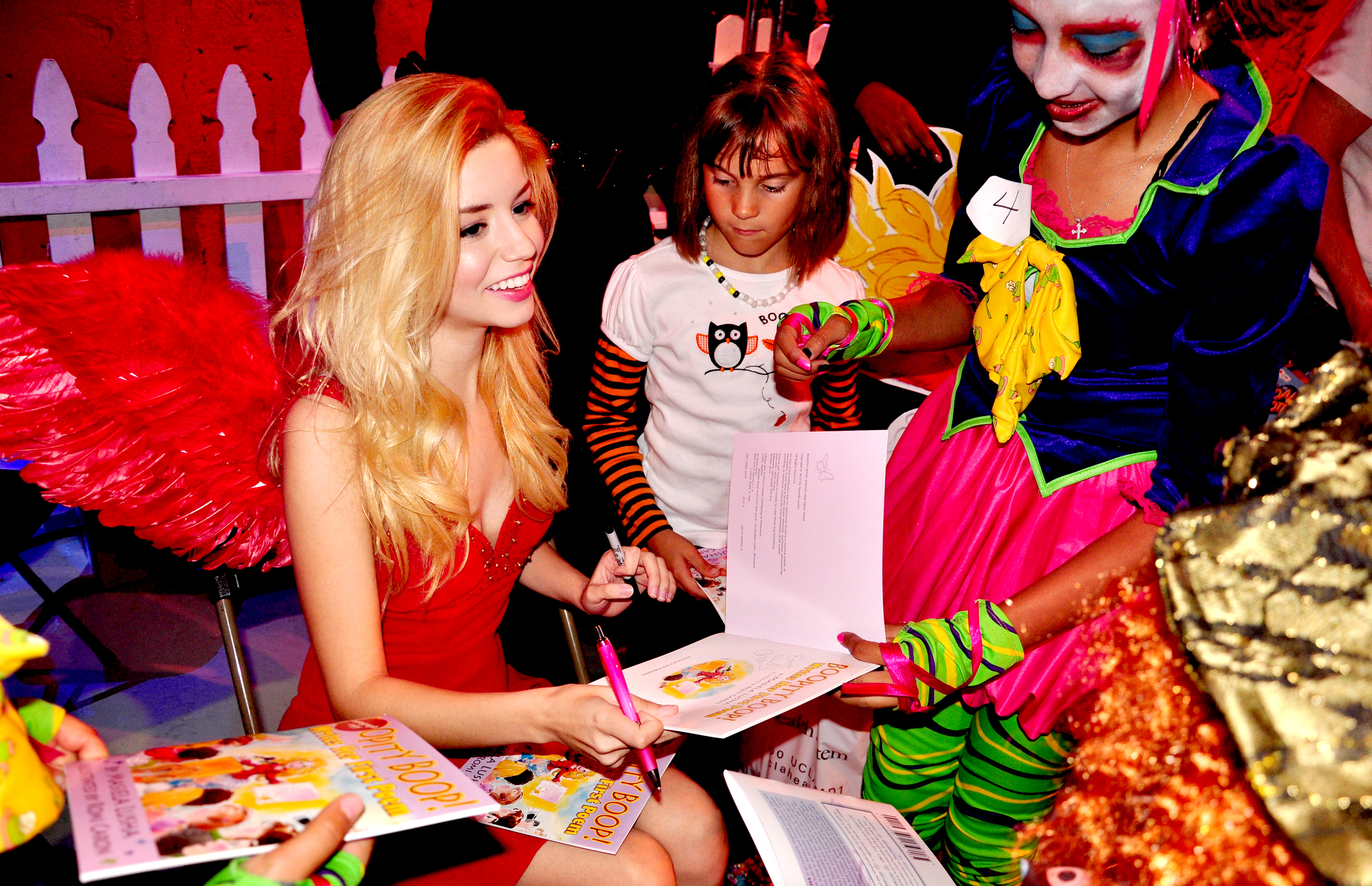 Masiela Lusha meeting fans at a Halloween Book signing